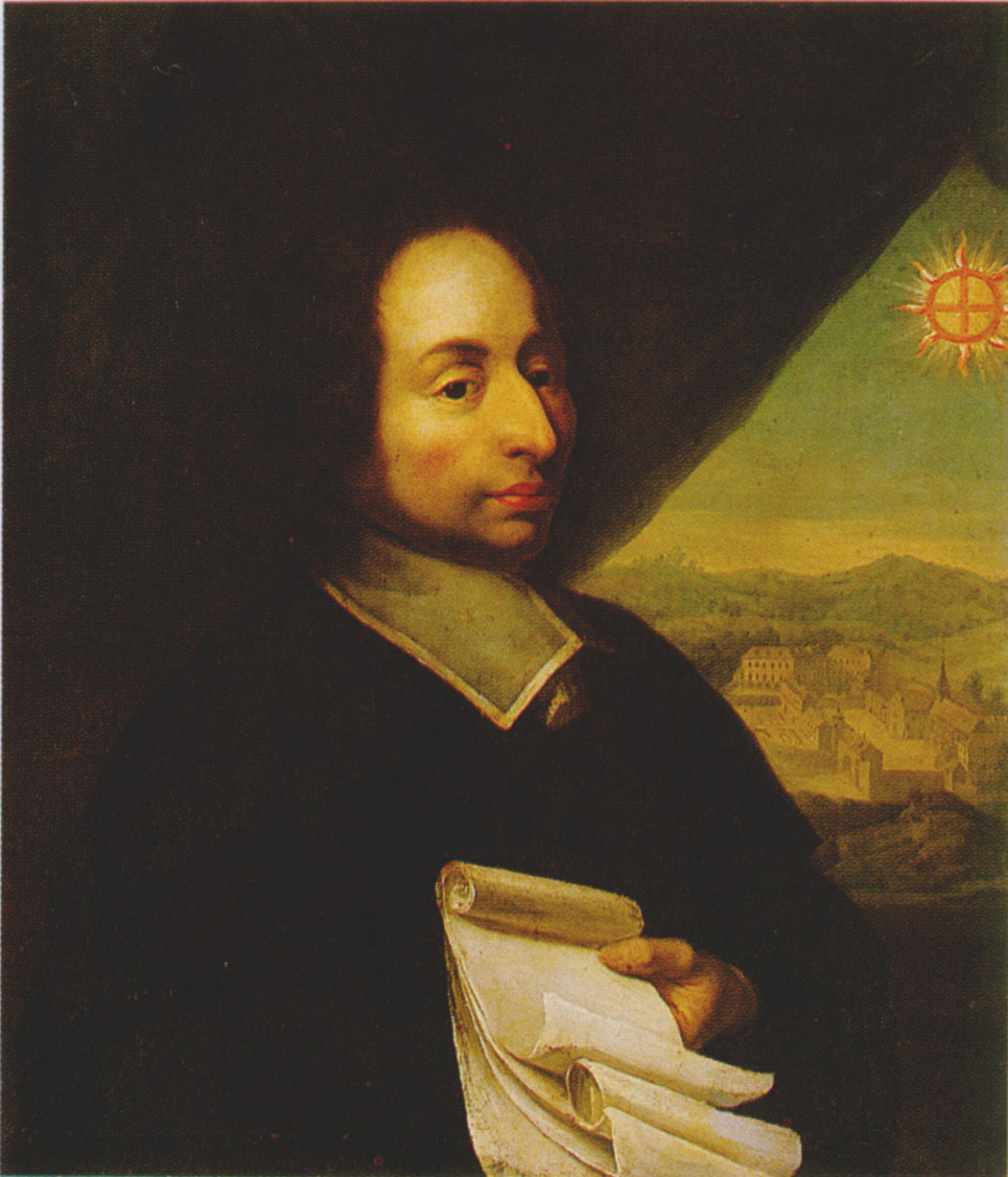 Anonymous portrait of Blaise Pascal